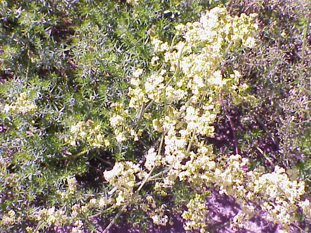 Species: Galium verum Family: Rubiaceae Image No. 3